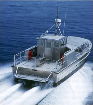 Official U.S. Navy photograph of the MPFUB, taken from behind.